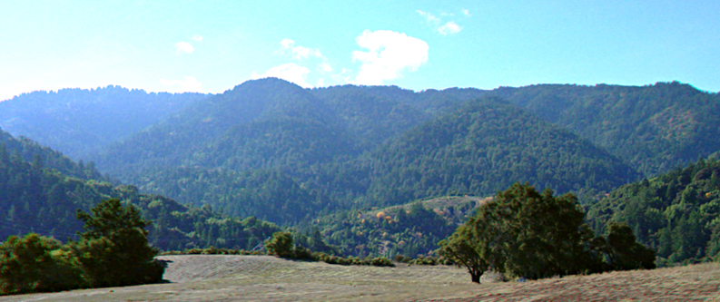 in USA public domain through us geological survey [1] (archive), which says "MtnWinery.jpg - An excellent view of the San Andreas Rift Valley at Sanborn Park is from the parking lot at the Mountain Winery (about 2 miles east of Sanborn Park on Eden Road - off of Highway 9). Skyline Ridge is in the distance. The valley to the left is Sanborn Creek. The vinyards of the Savannah-Channelle Winery are in the middle of the image."